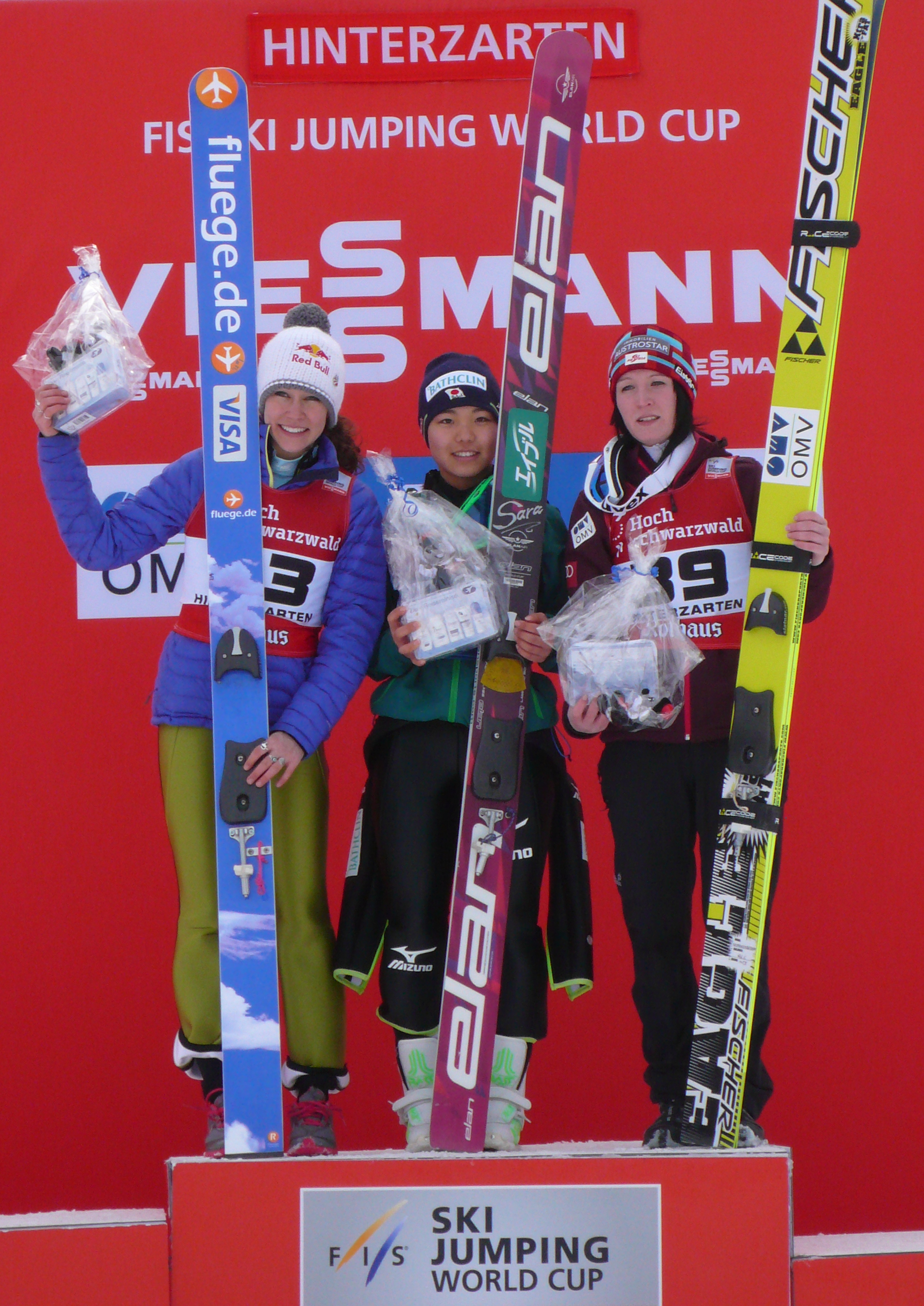 1: Sara Takanashi, 2: Sarah Hendrickson,, 3: Jacqueline Seifriedsberger: podium of Female Skijumping Worldcup in Hinterzarten on the 2013-01-13.